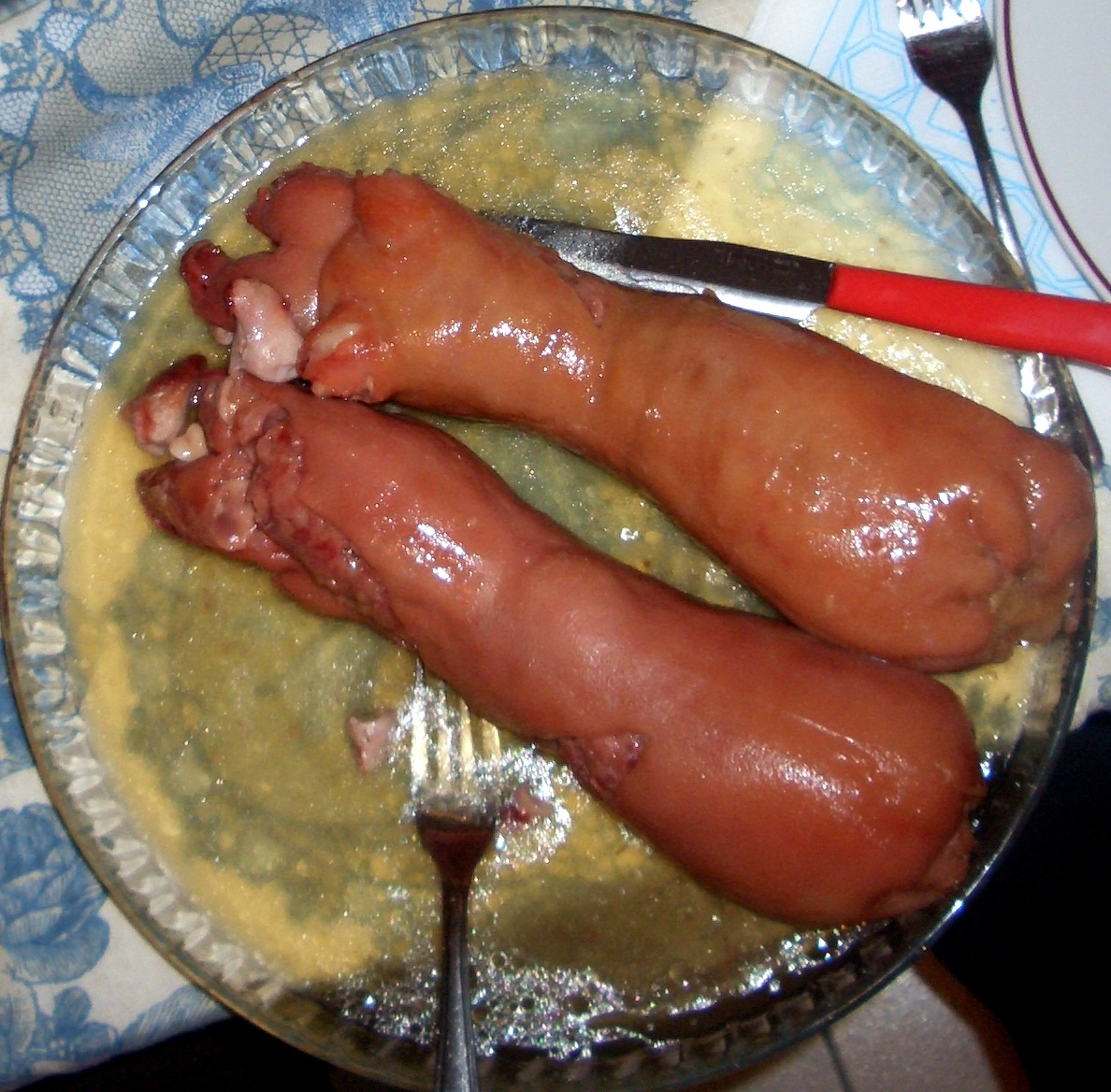 Zampone, an italian speciality (stuffed knuckles of pork) from the region of Emilia-Romagna.